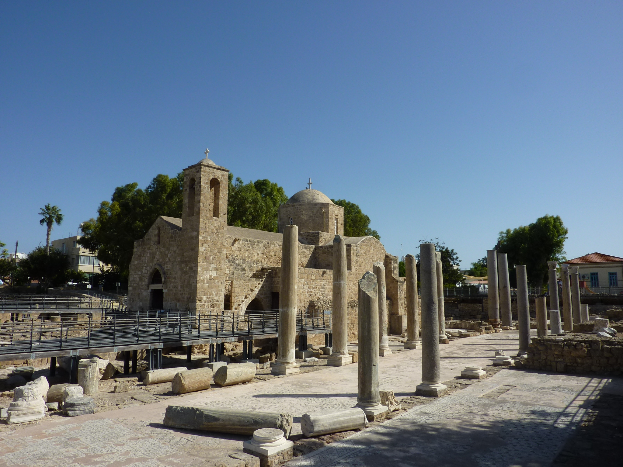 Ayia Kyriaki / Panagia Chrysopolitissa Church (Paphos)